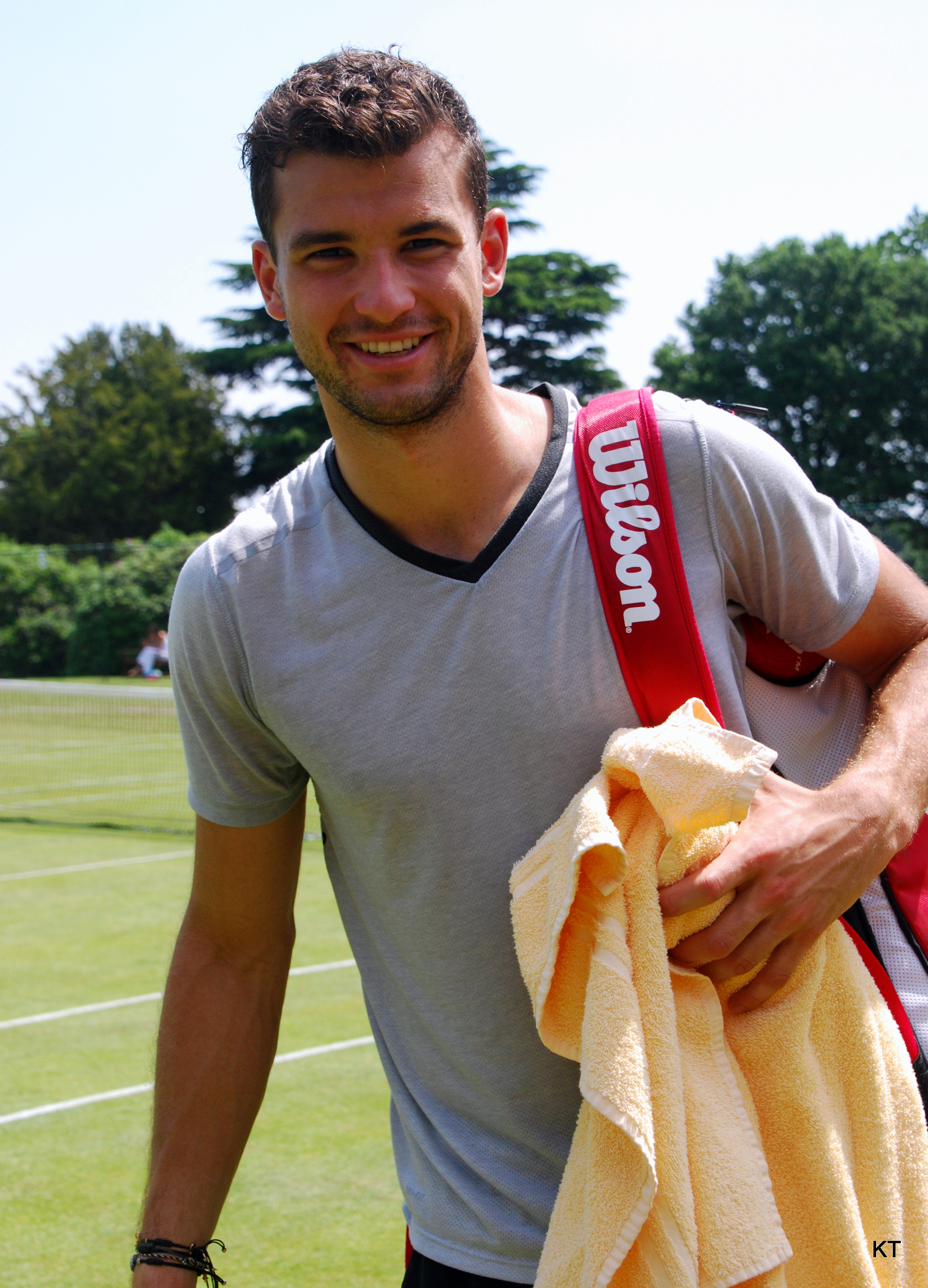 Dimitrov posing for a picture at the Boodles Challenger